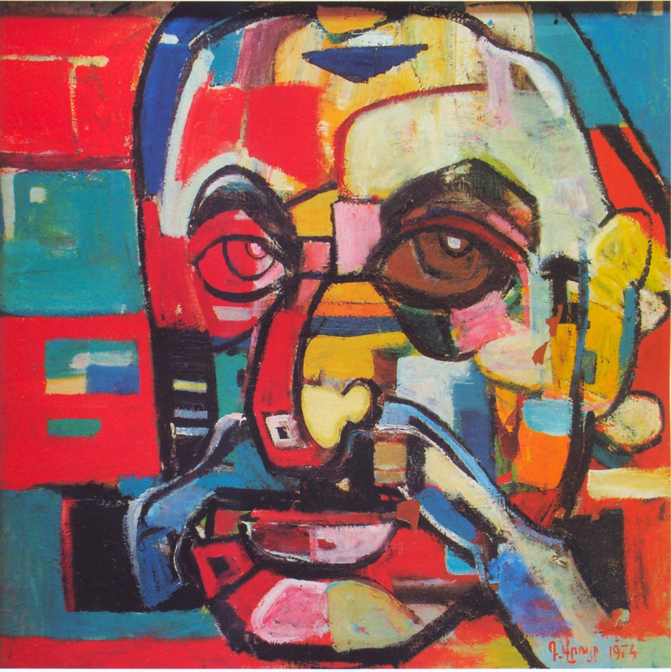 Vruir Galstian - Sero